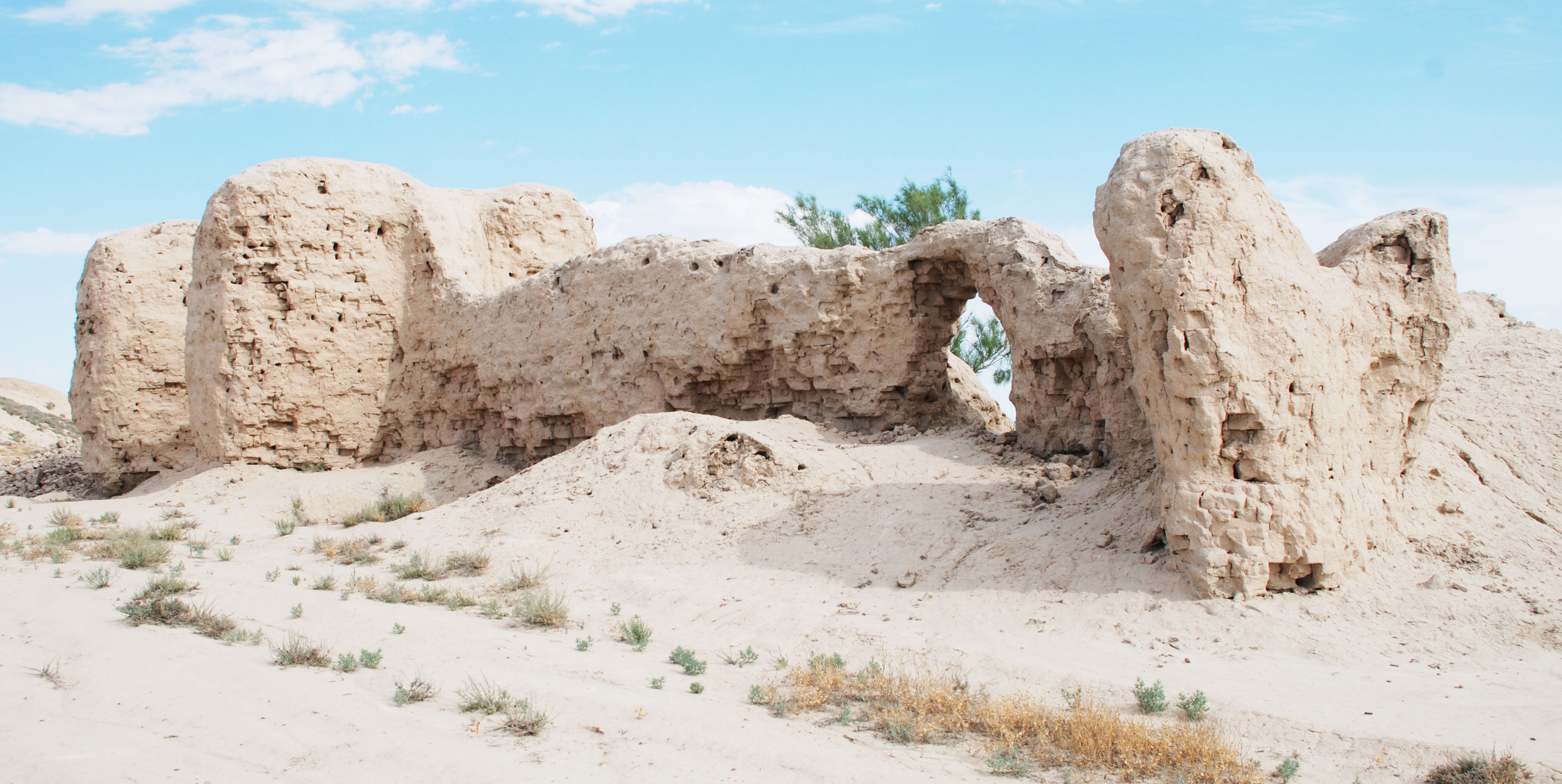 The ruins of the arch (Altyn-asar)